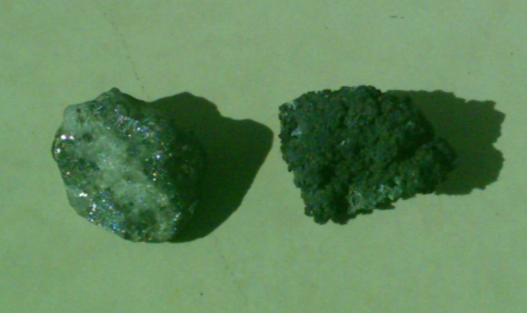 Galena